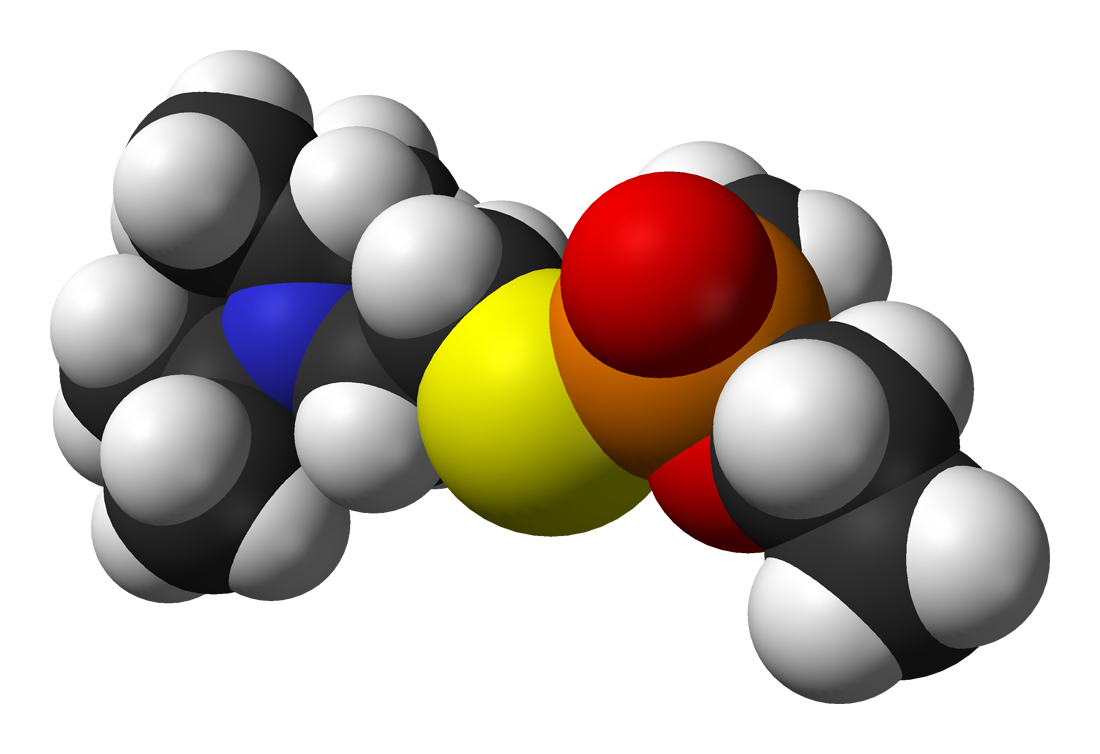 Space-filling model of the (S) enantiomer of VX. Systematic name generated in ChemDraw: (S)-S-2-(diisopropylamino)ethyl O-ethyl methylphosphonothioate. Image based on structural data from this model.[dead link] Cf. John H, Balszuweit F, Kehe K, Worek F & Thiermann H (2015) "Toxicokinetic Aspects of Nerve Agents and Vesicants" in Gupta, Ramesh C. , ed. Handbook of Toxicology of Chemical Warfare Agents (2nd ed.), Cambridge, MA: Academic Press, pp. 817-856, esp. 823 [Fig.56.1] ISBN: 0128004940. . The crystal structures of closely related molecules have been reported: V. G. Andrianov et al., Zh. Strukt. Khim. (1981) 22, 68-1 (MEPVAL) and A. M. Sorensen, Acta. Cryst. B (1977) 33, 2693 (IPEMPI).